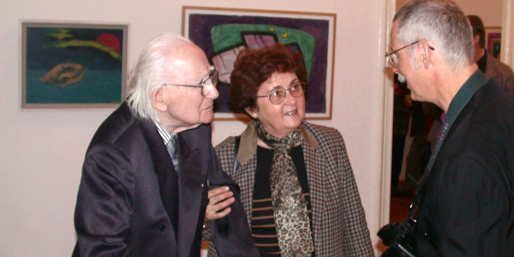 Tamás Lossonczy, his wife and János Árpád Kazinczy.